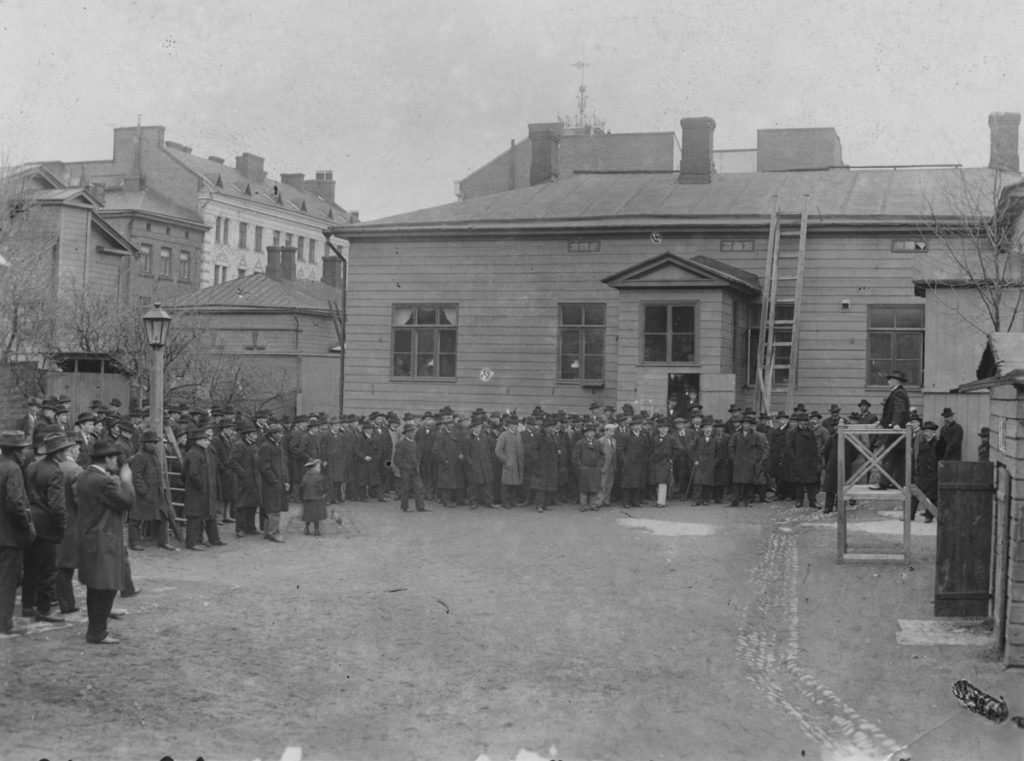 Finnish socialist and journalist Alex Halonen (1878-1946) speaks in Helsinki 1900.